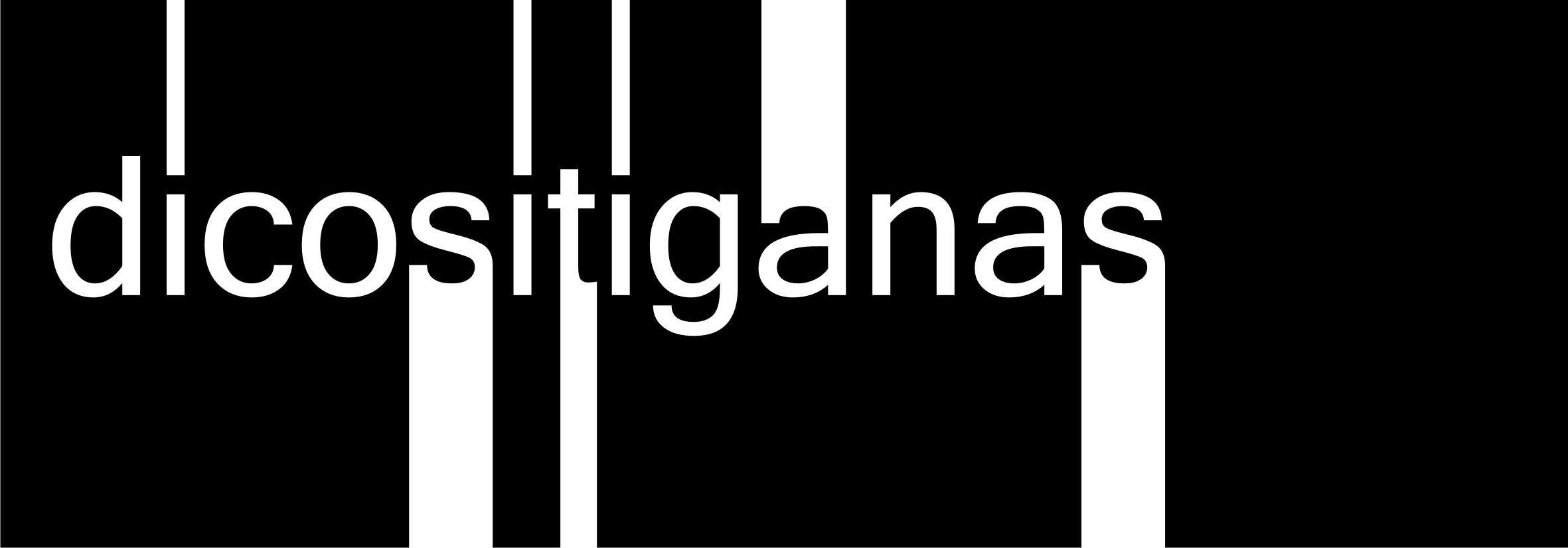 Company Logo